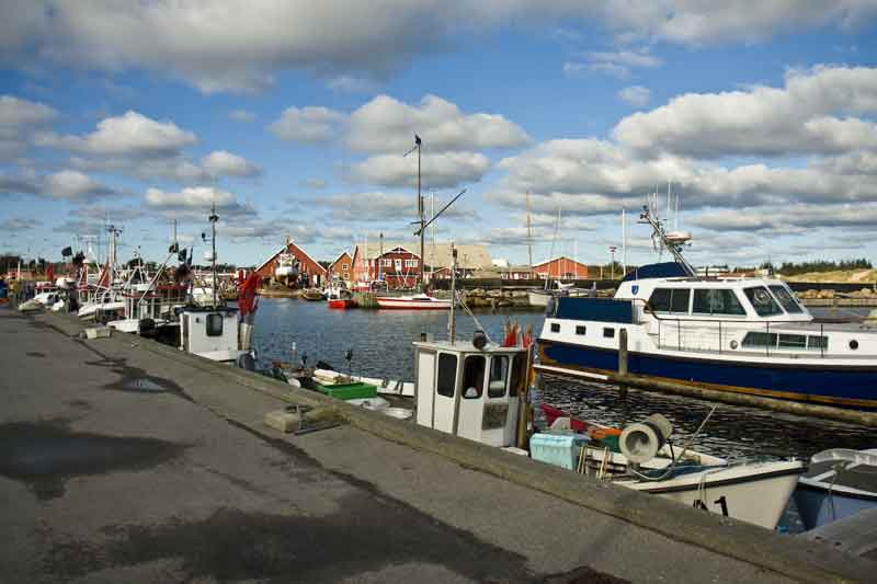 Aalbæk harbour, port for fishery vessels and pleasure boats, Vendsyssel, Denmark